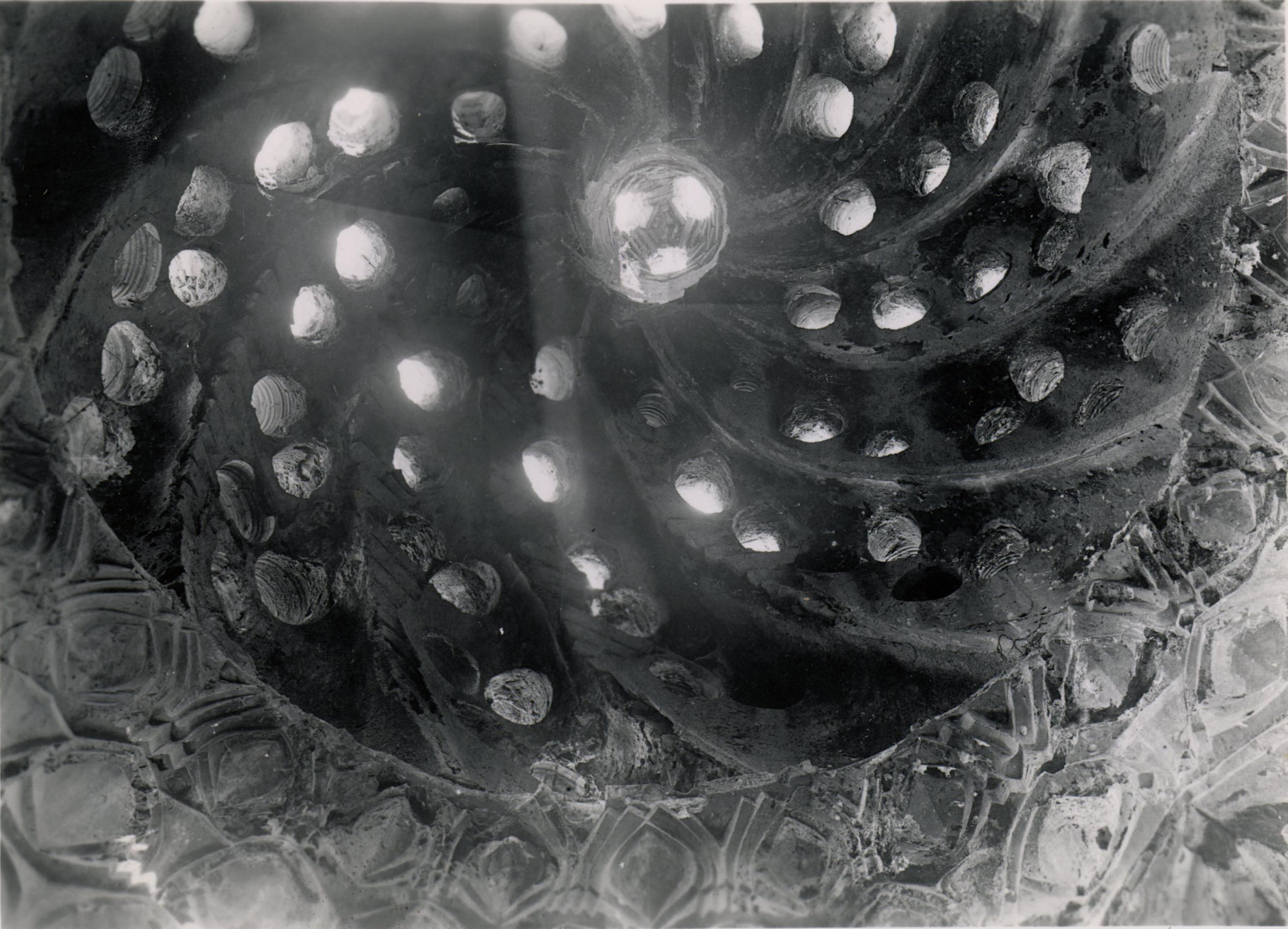 Spiral dome of one of the volumes in İznik İsmail Bey Hammam and another transition element of another volume. İznik İsmail Bey Hamamı'nda bir hücrenin helezonik kubbesi ve başka bir hücrenin kubbeye geçiş öğesi. SALT Araştırma, Ali Saim Ülgen Arşivi. SALT Research, Ali Saim Ülgen Archive